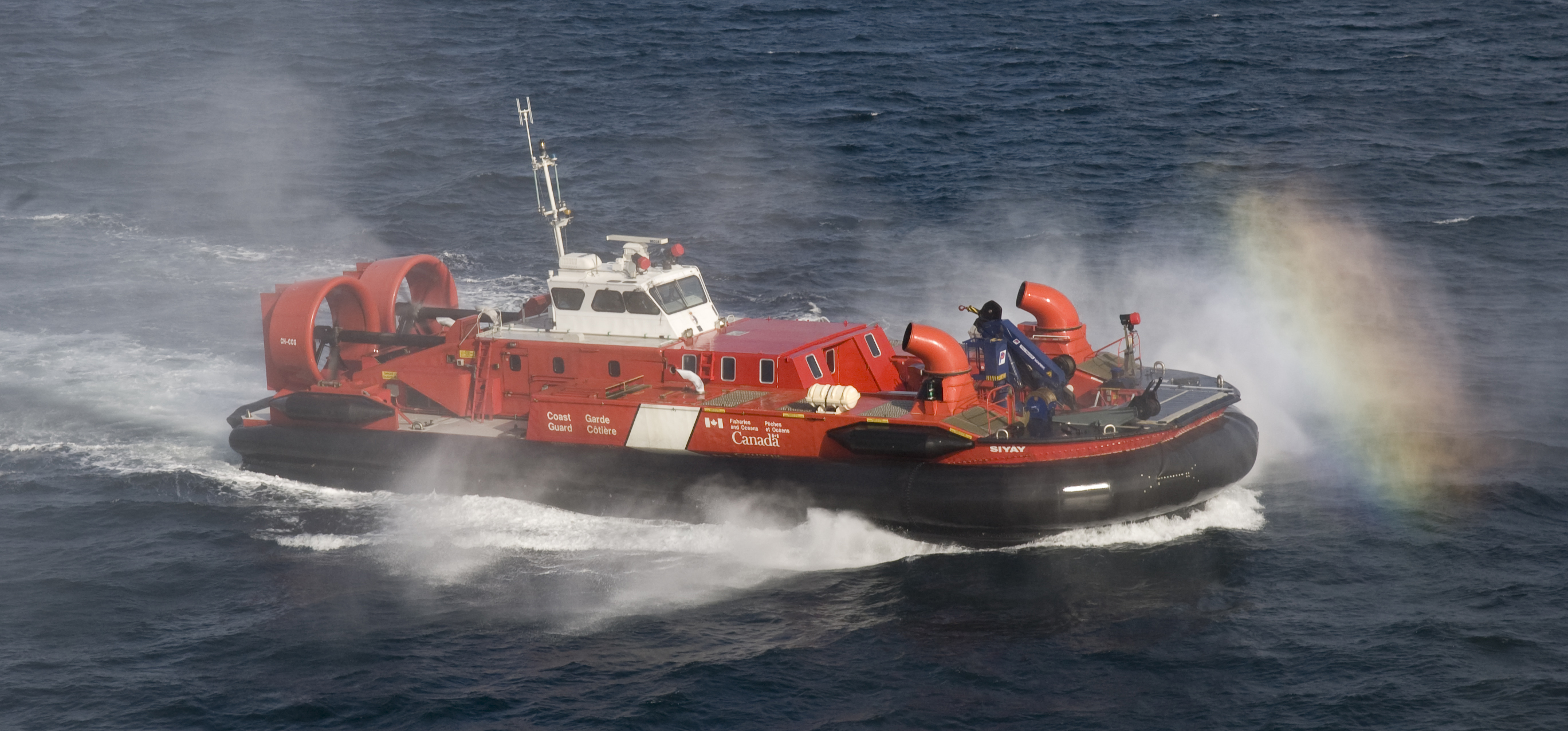 Canadian Coast Guard Hovercraft Siyay. Original caption: "The Canadian Coast Guard Hovercraft Siyay, homeported in Sea Island, Richmond, British Columbia, makes its way here as part of Excercise Pacific Unity 2009, Aug. 23, 2009. Pacific Unity 2009 is a coordinated North Pacific Coast Guard Forum scenario that is focused on demonstrating the parter nation's ability to provide maritime assets during an excercise occuring in the Pacific Northwest. Japan, Russia, Canada and the United States are sending vessels to take part in the evolutions while two members of the forum, China and South Korea, will be participating as observers. Specifically, the partner nations will be coordinating simulated search and rescue, aids to navigation, law enforcement and security operations during the three day event. In addition, there will be opportunities for the crews participating to join together in social and cultural events aimed at building camaraderie and team work." VIRIN = 090823-G-1034C-002